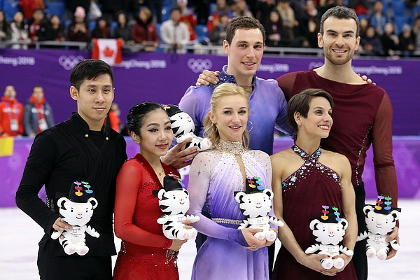 The pairs podium at 2018 Winter Olympic Games.From left to right: Sui Wenjing/Han Cong (2nd), Aliona Savchenko/Bruno Massot (1st), Meagan Duhamel/Eric Radford (3rd).